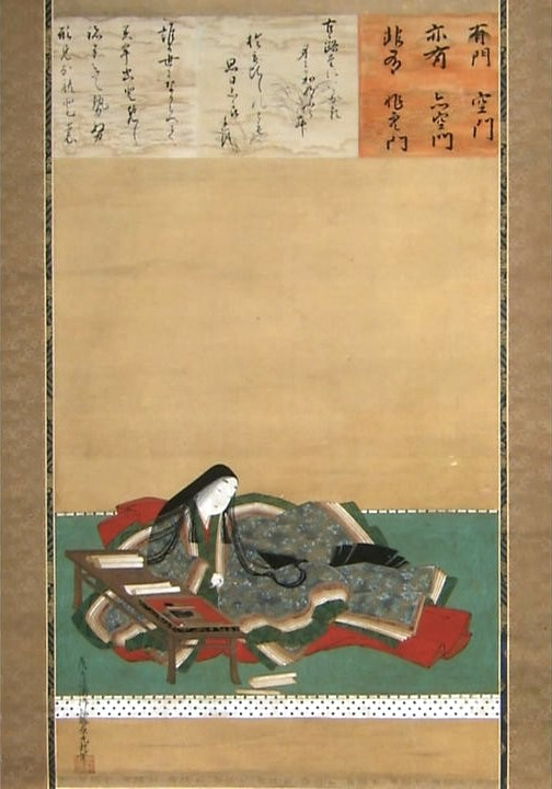 Copy of 17th-century portrait of Murasaki Shikibu, wearing the jūnihitoe, by Tosa Mitsuoki (1617–1691)